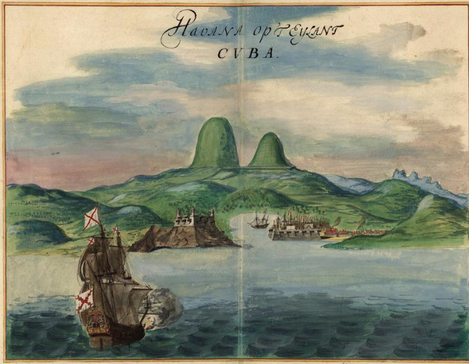 Havana on the Island of Cuba